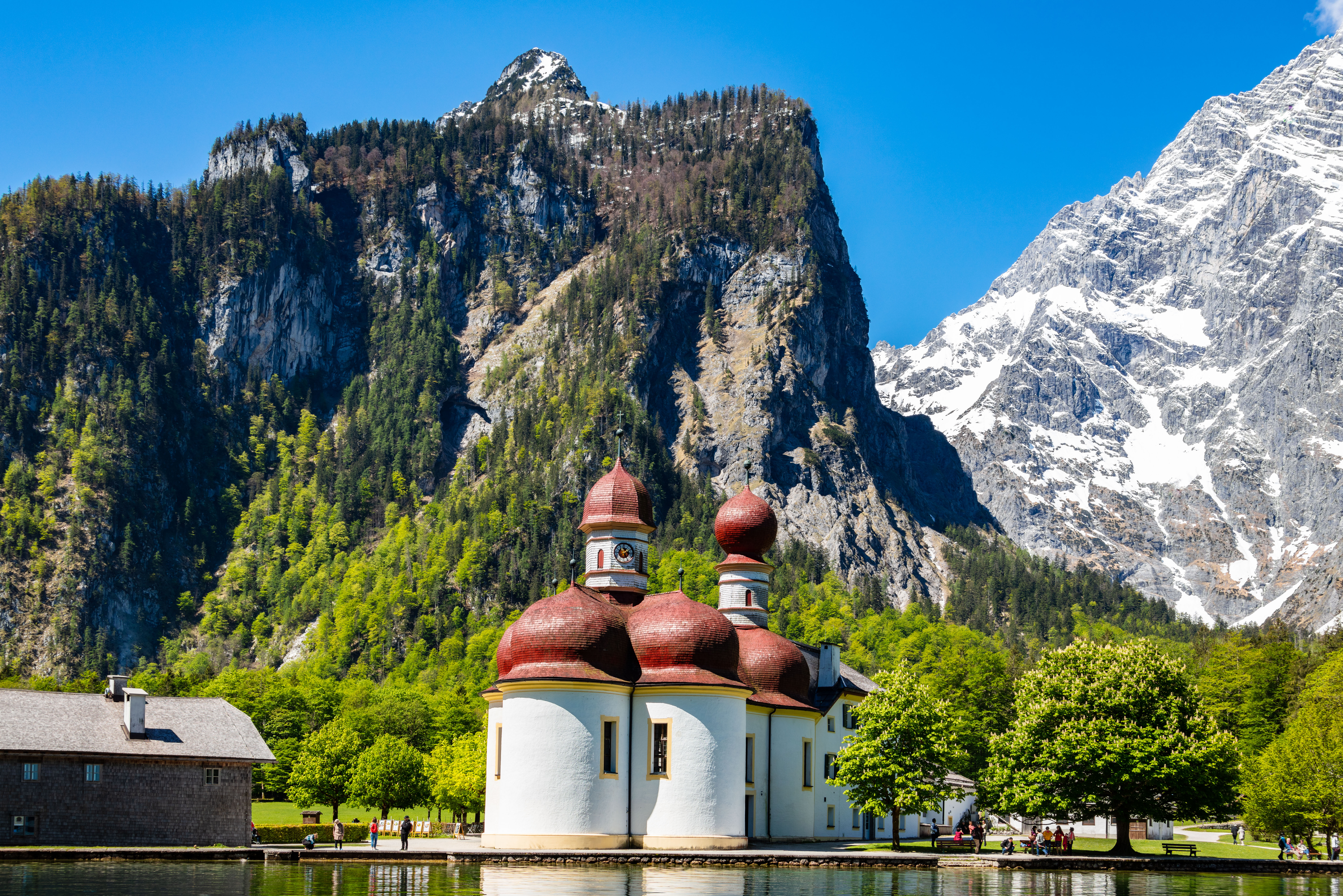 St. Bartholomew's Church, Königssee, Germany